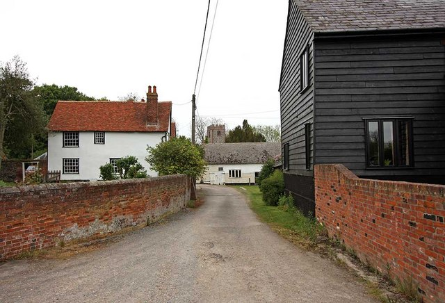 Road to St Mary's Church, Lindsell, Essex